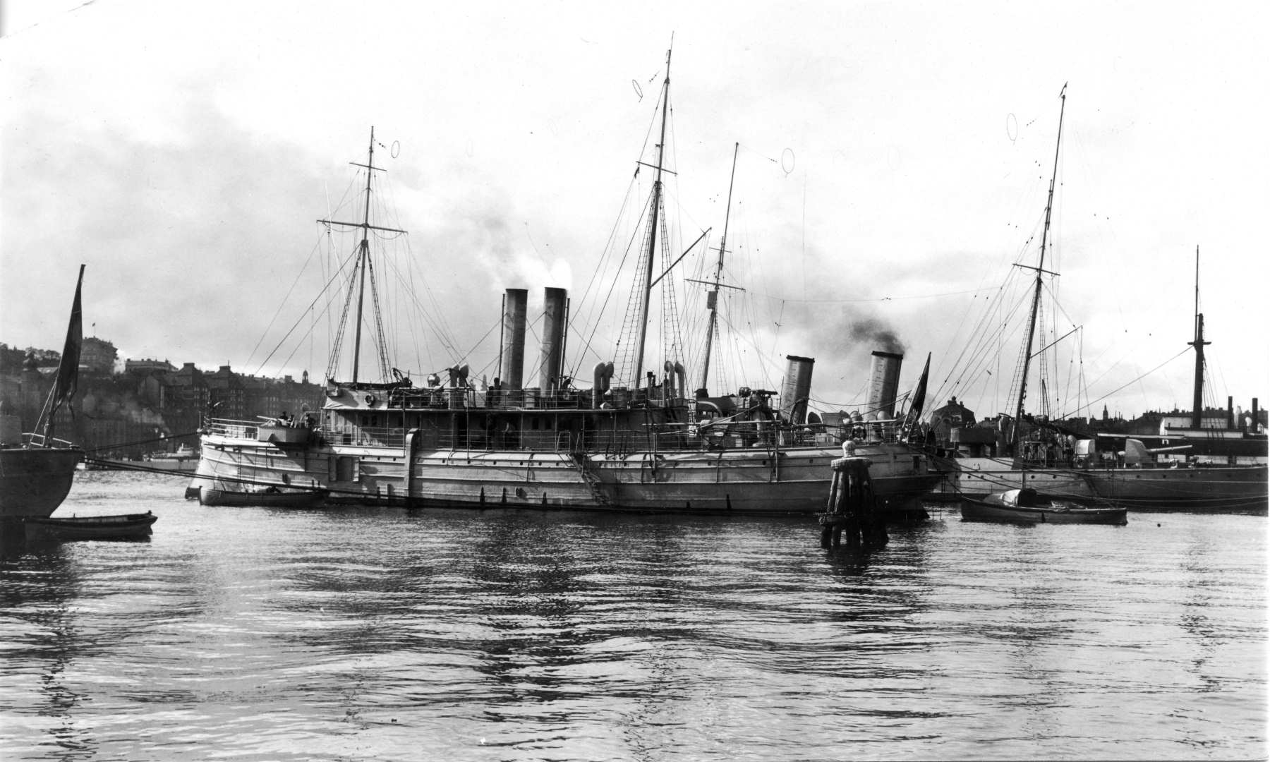 The Swedish gunboat HMS Blenda 1918 in Stockholm as a workshop vessel. She has been fitted with two 57 mm canons. The torpedo cruiser HMS Psilander can be seen in the background. From Curt S. Ohlsson's collections.